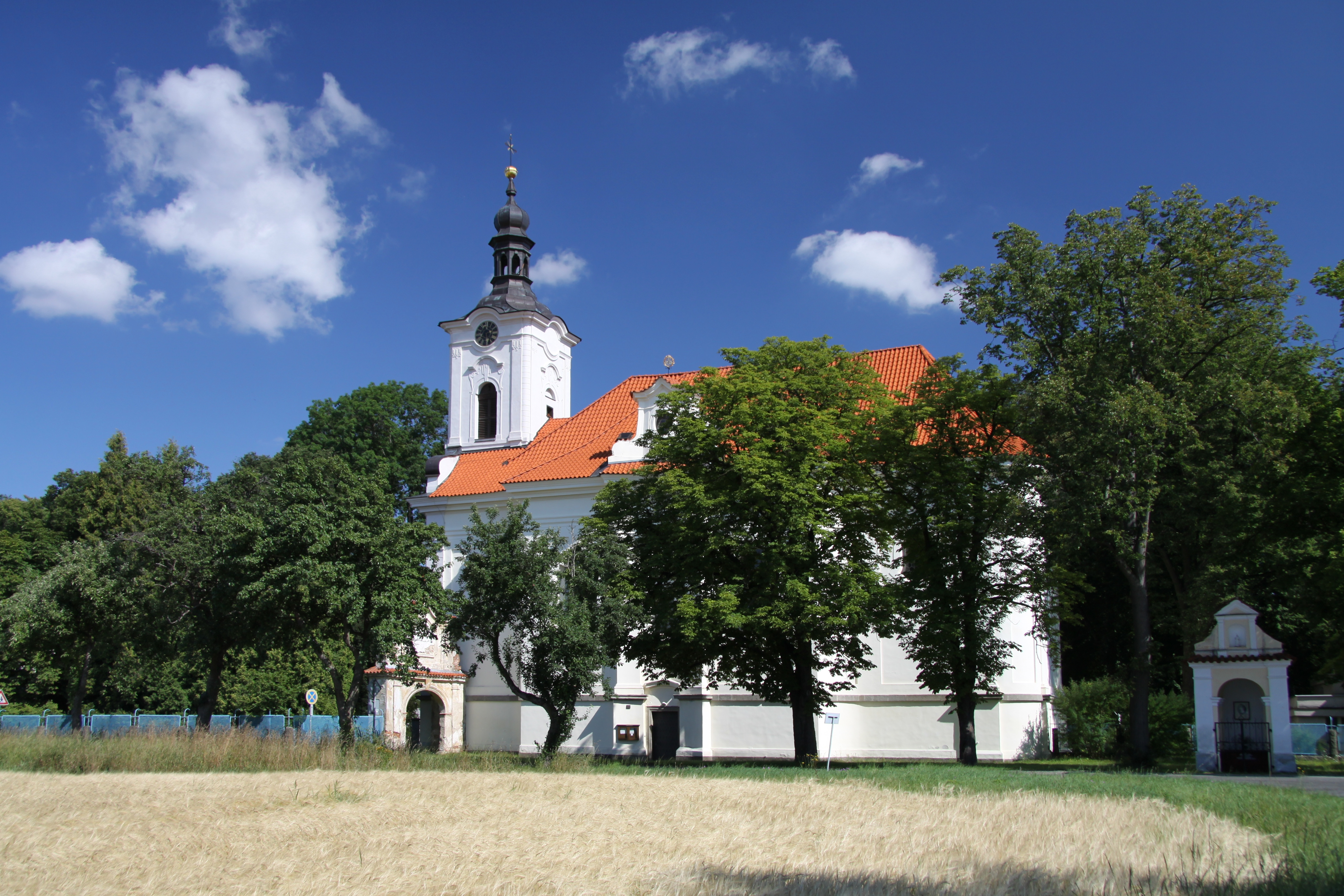 Church of Saint František Xaverksý in Opařany village in Tábor District, Czech Republic - Google Maps - Google Earth